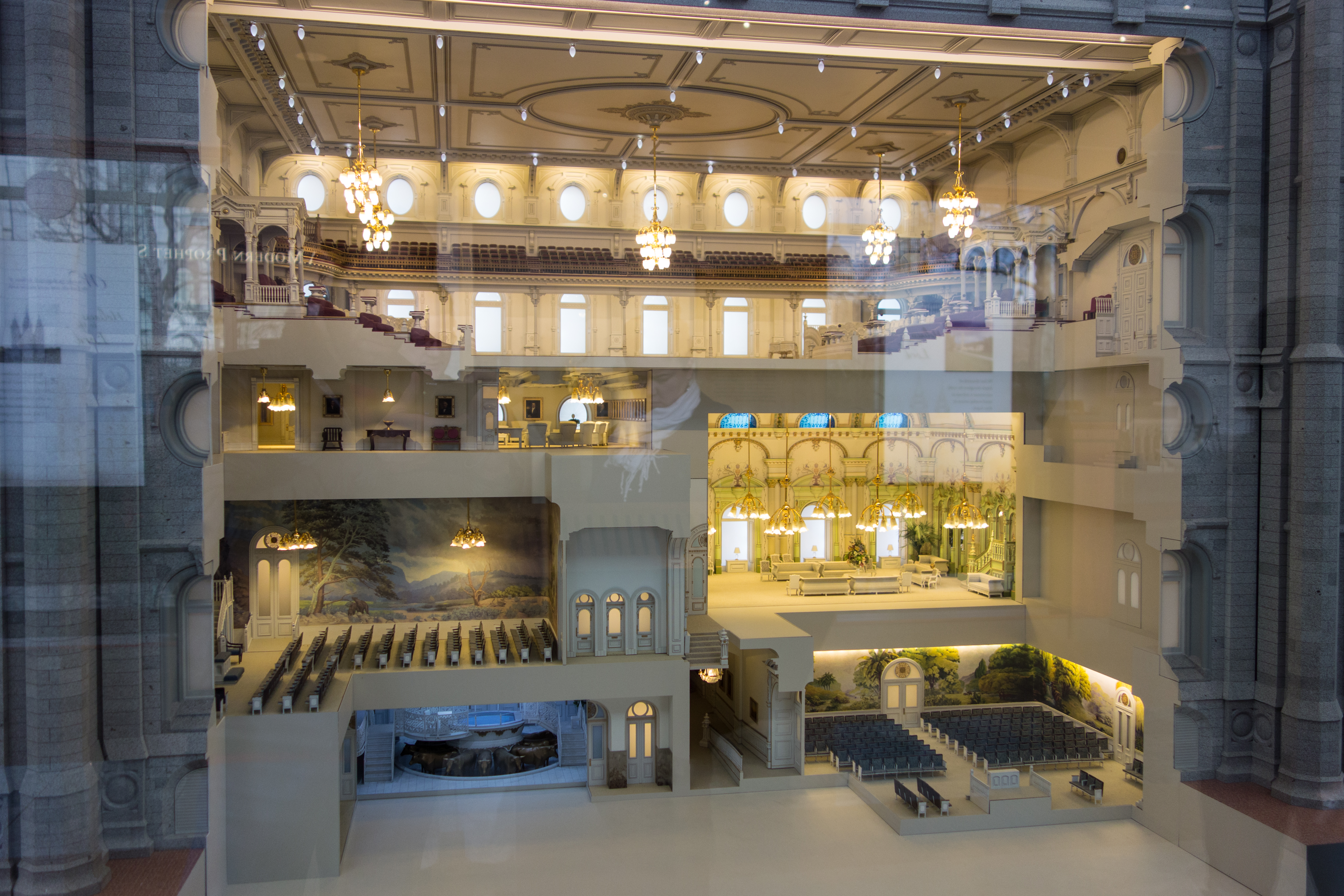 A model showing the interior of the Salt Lake Temple. The model is located in the South Visitors' Center on Temple Square. The model was added to the center's exhibits in May 2010, and is encased in glass, which has created a reflection in the photograph.